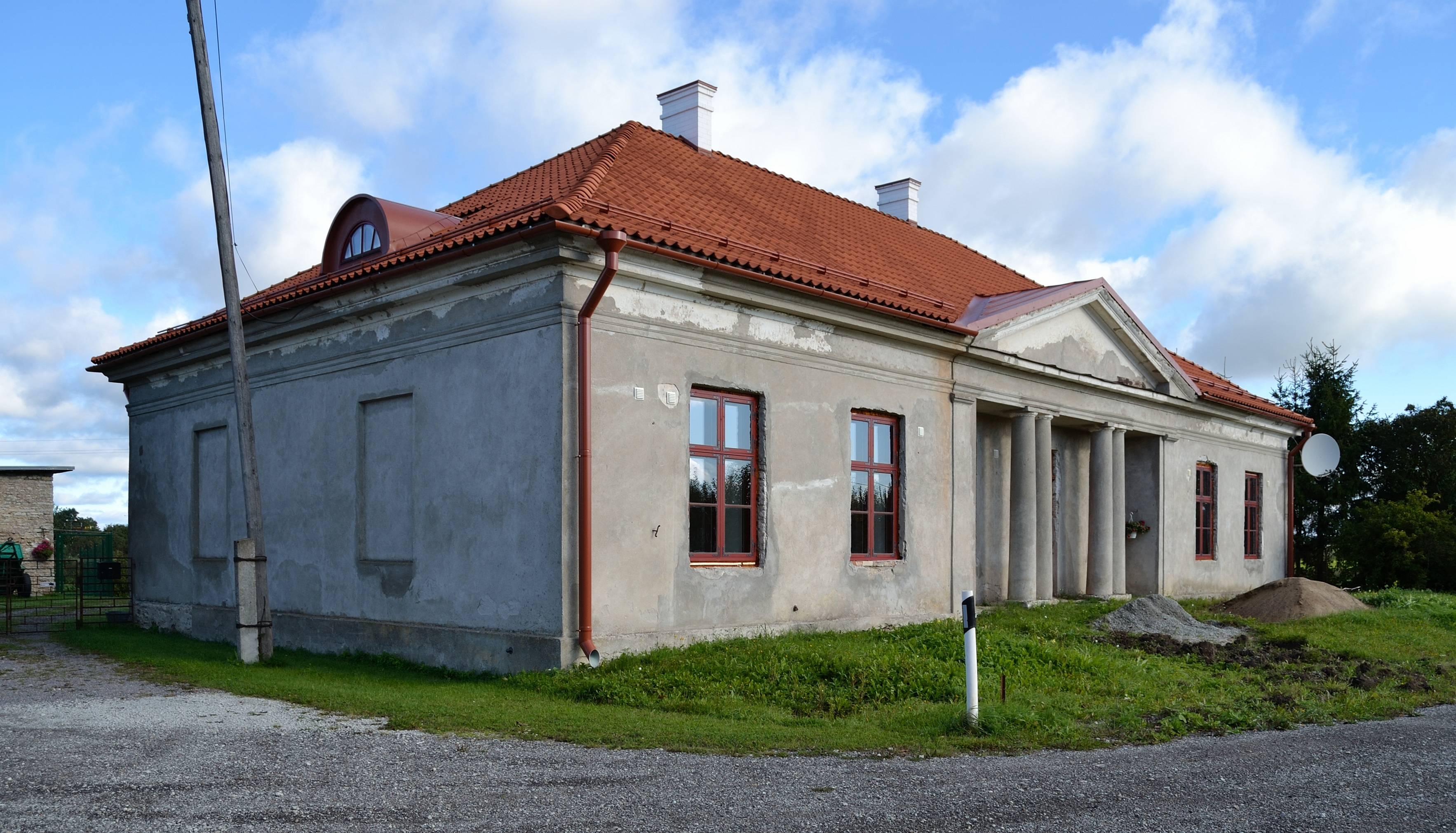 Saue post station, built in 1831 This photograph was taken with a Nikon D3100